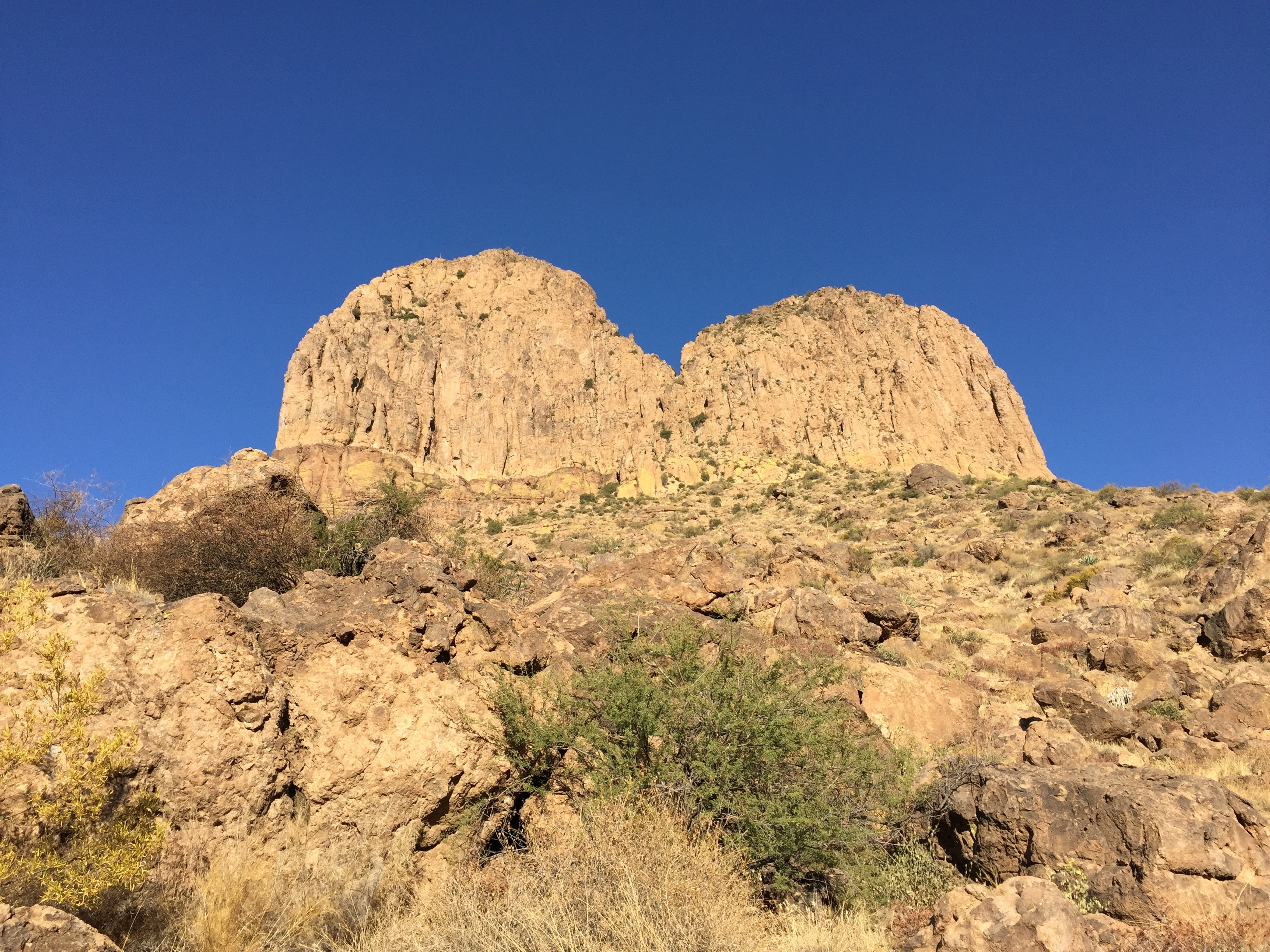 Weavers Needle, Superstition Wilderness, Arizona, USA